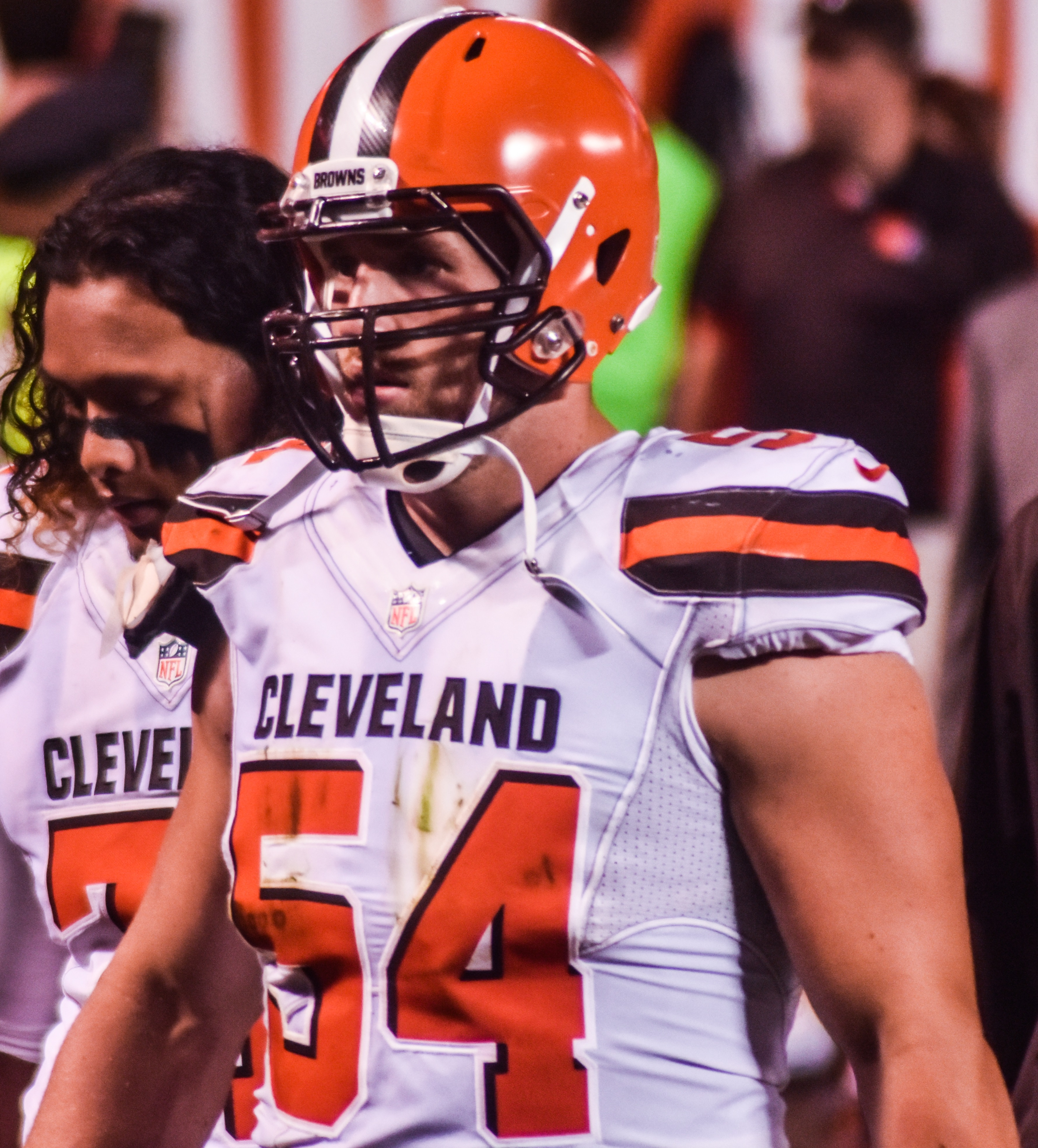 Browns vs Bills